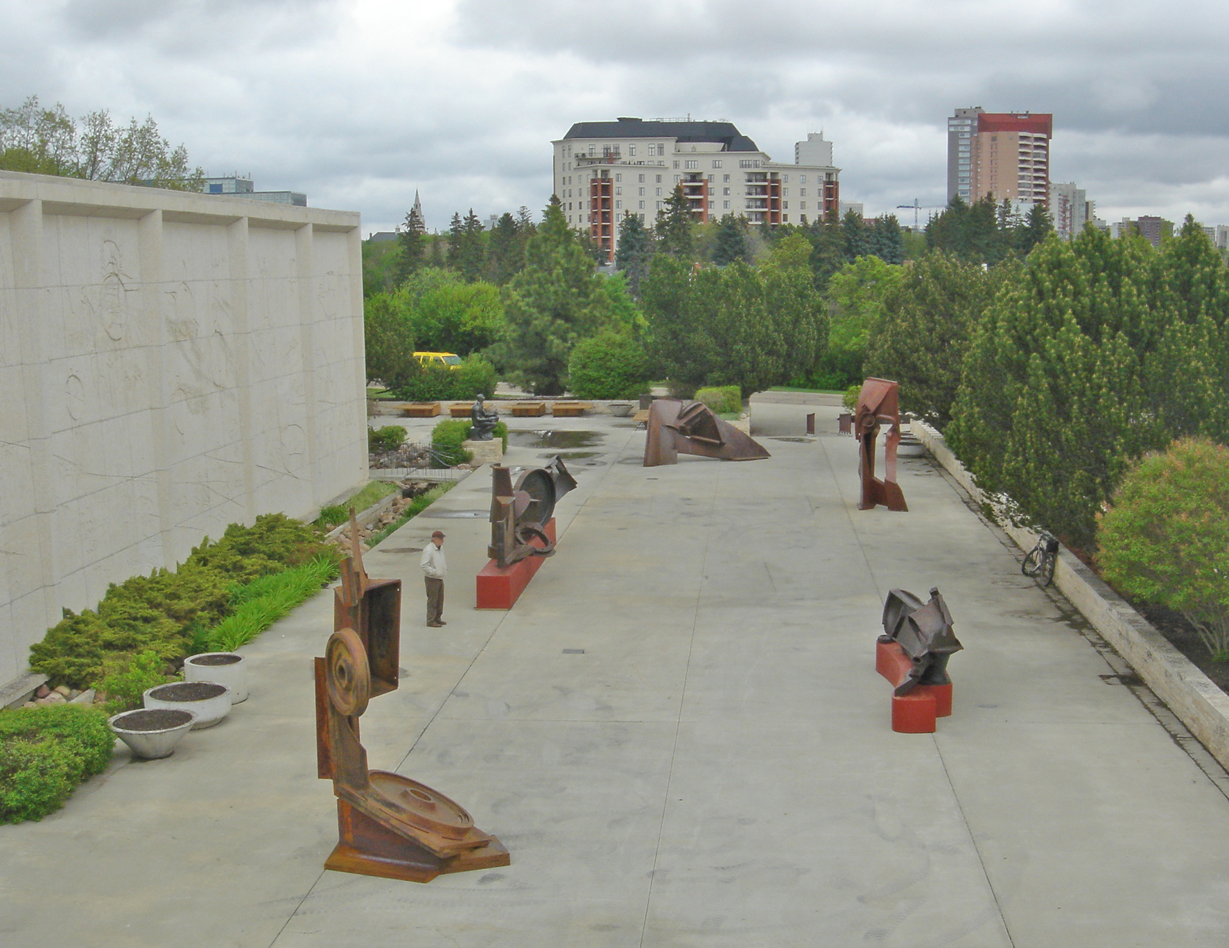 Installation view of "Peter Hide @ The RAM," an exhibition of large sculptures by British artist Peter Hide, In Edmonton.